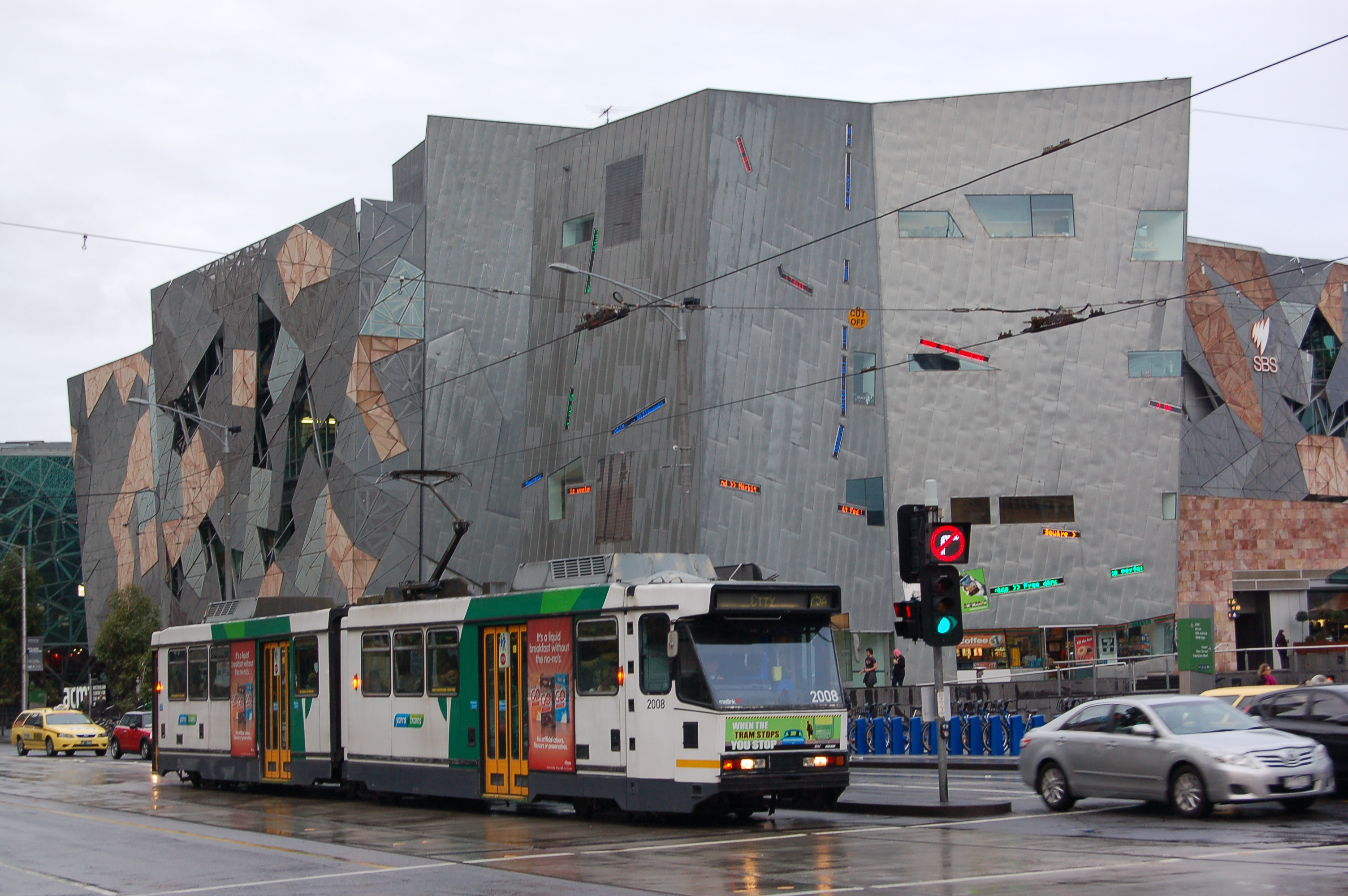 B2 class tram no 2008 operating a westbound route 75A service from Vermont South to Spencer Street, City, along Flinders Street, Melbourne, Australia. The tram is waiting at the traffic lights at the intersection between Flinders and Swanston Streets, with the East Shard and ACMI building at Federation Square in the background.